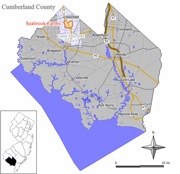 Source: Jim Irwin Original work by Jim Irwin, December 2005.